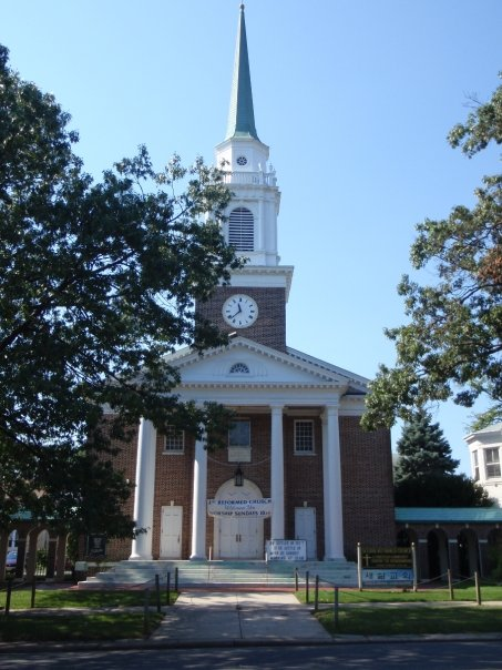 Second Reformed Church located along College Avenue in New Brunswick, Middlesex County, New Jersey in the United States.